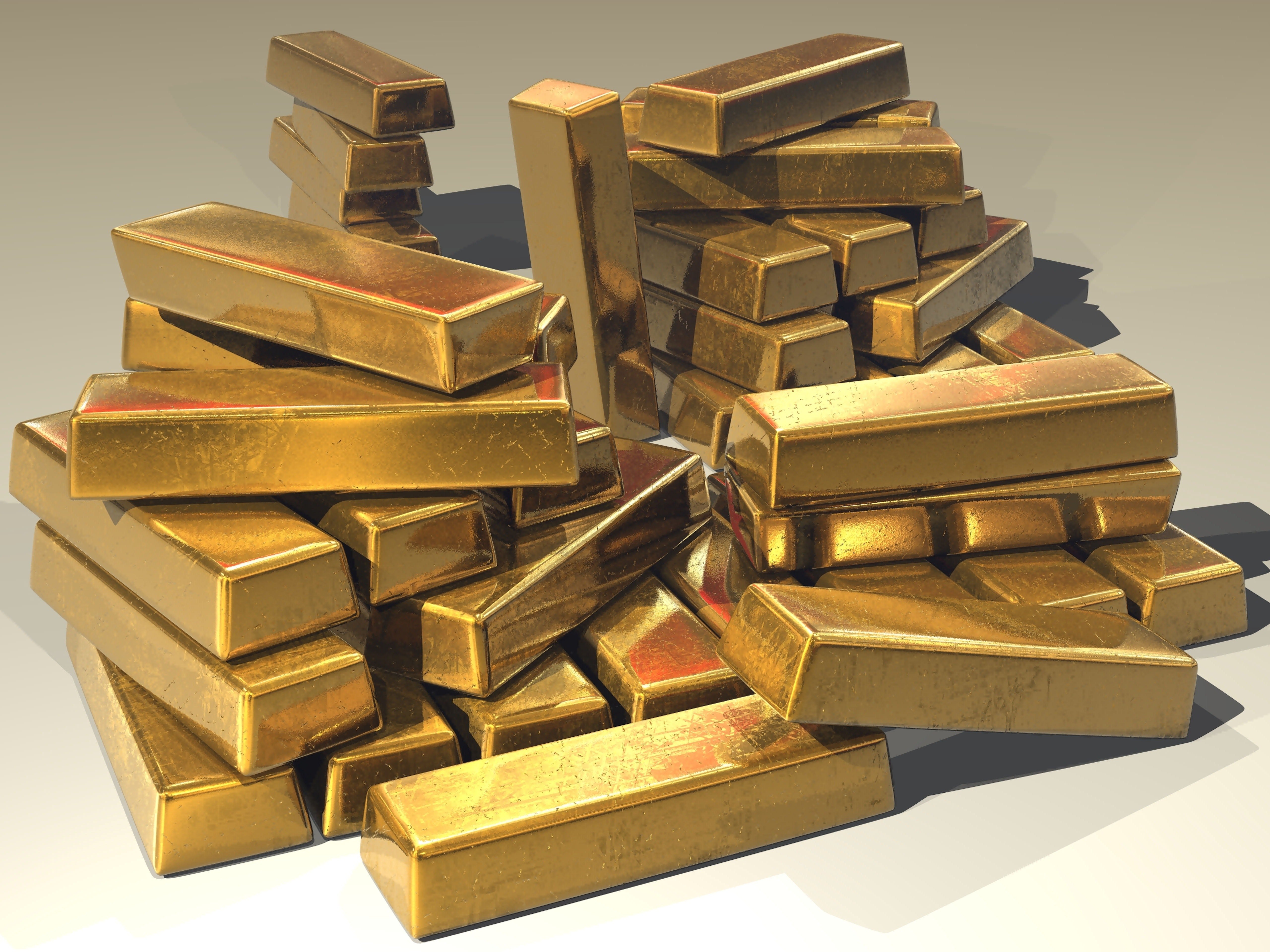 A pile of stacked gold bars